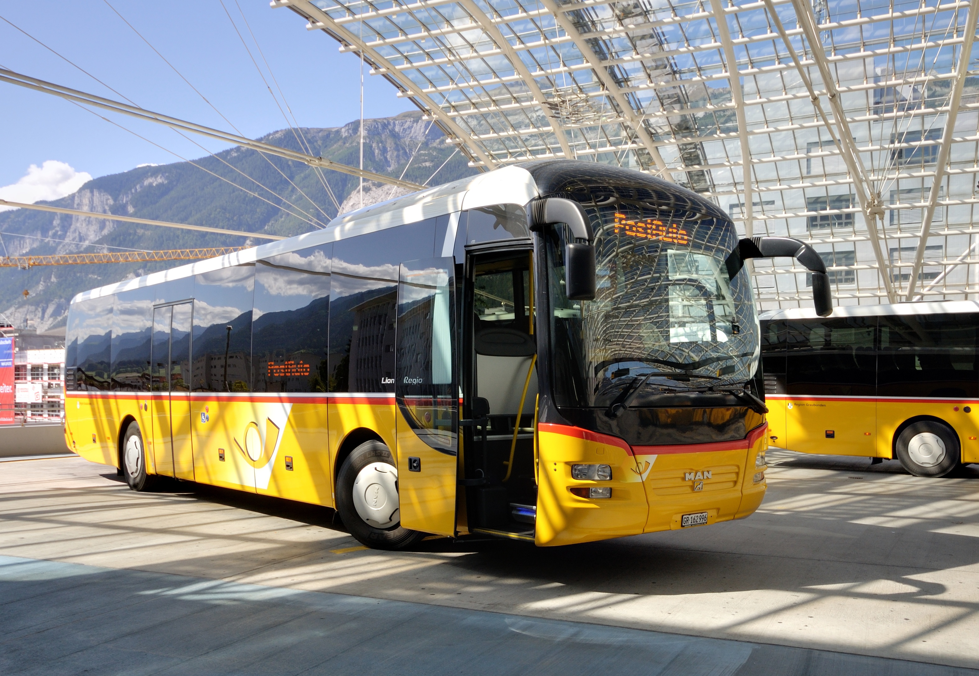 Postal bus (MAN Lion's Regio) in Chur.